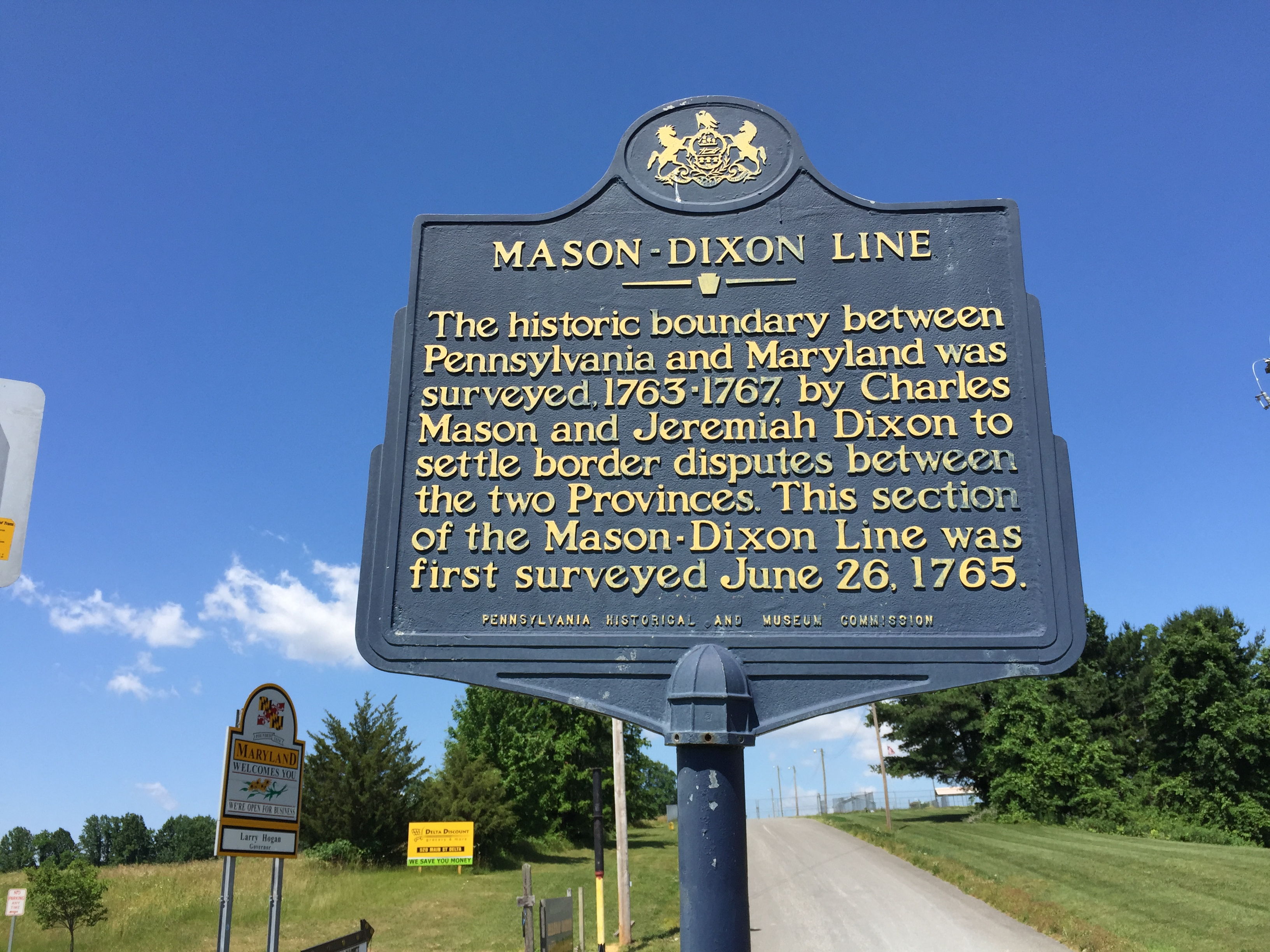 Historical marker for the Mason-Dixon Line at the south end of Pennsylvania State Route 74 (Delta Road) in Peach Bottom Township, York County, Pennsylvania